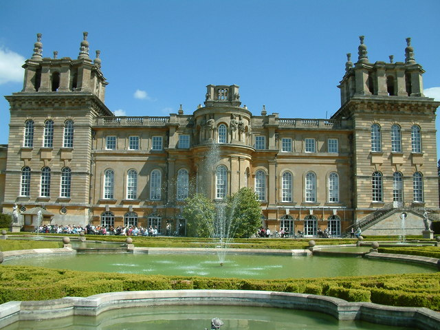 Blenheim Palace, Oxfordshire: view from the garden. A view from the gardens taken on a very hot day.